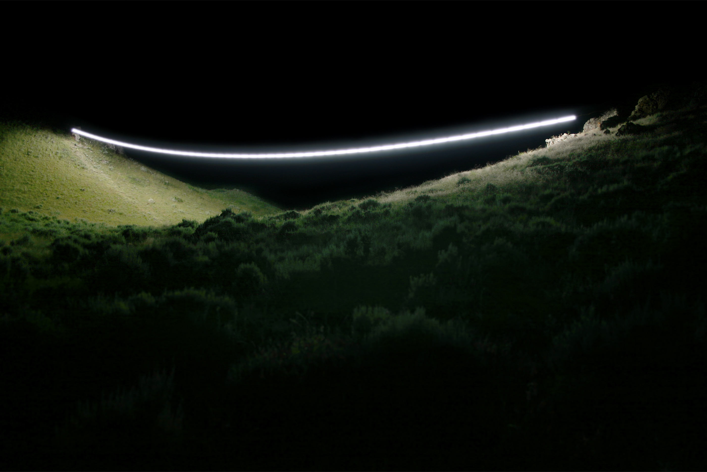 fluorescent fixtures and bulbs, steel cable, generator 240' long 2005